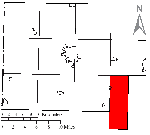 Made by the US Census and modified by myself